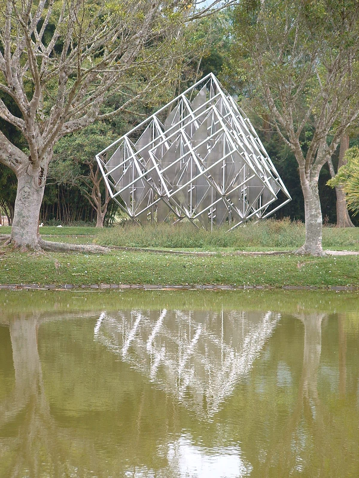 Espejo Solar a work of art in metal in a small patch of land in the middle of the pond at the entrance of the Simón Bolívar University. The structure is the work of Alejandro Otero.